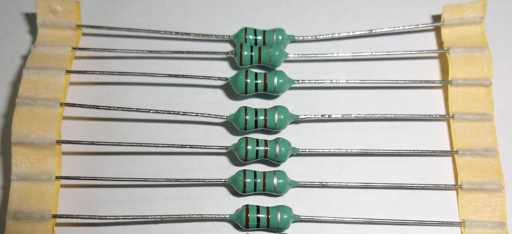 Resistor shaped Inductors